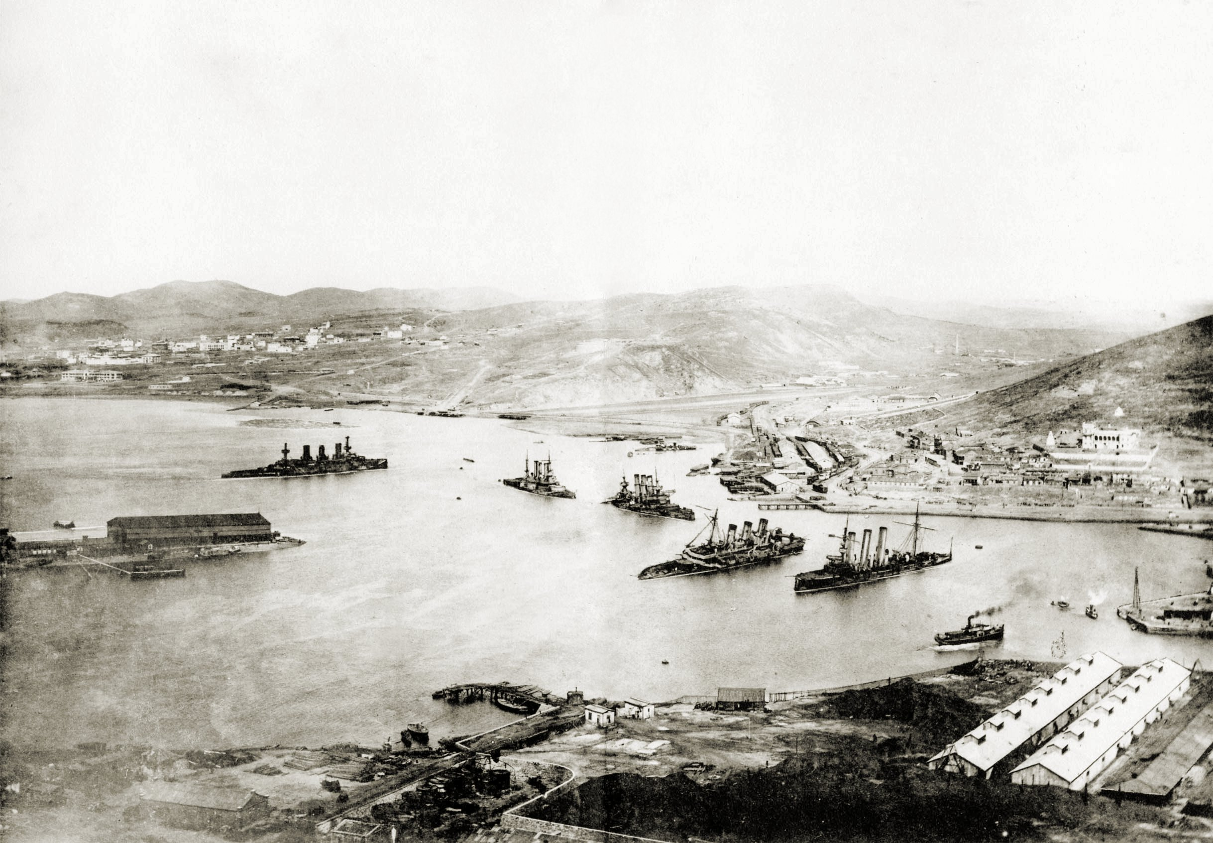 Port Arthur viewed from the Top of Gold Hill, after capitulation in 1905. From left wrecks of battleships: Peresvet, Poltava, Retvizan, Pobeda and Pallada cruiser